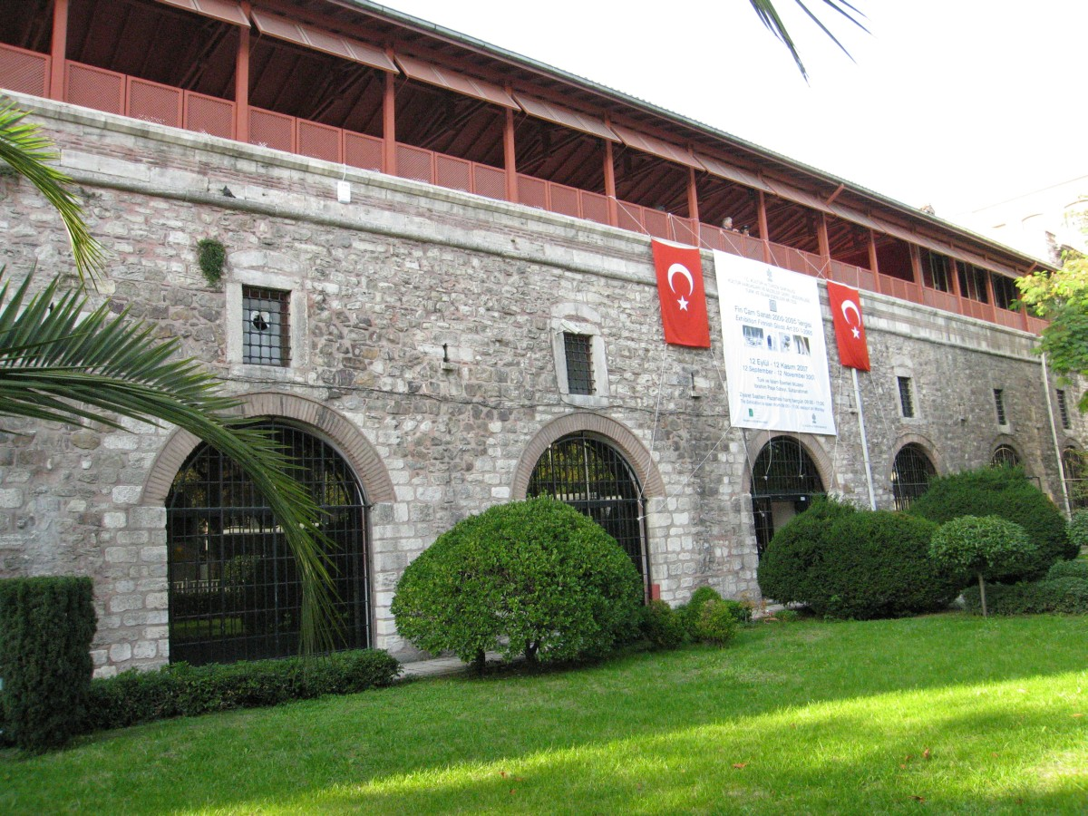 Main building of Turkish and Islamic Arts Museum, Istanbul, Turkey.